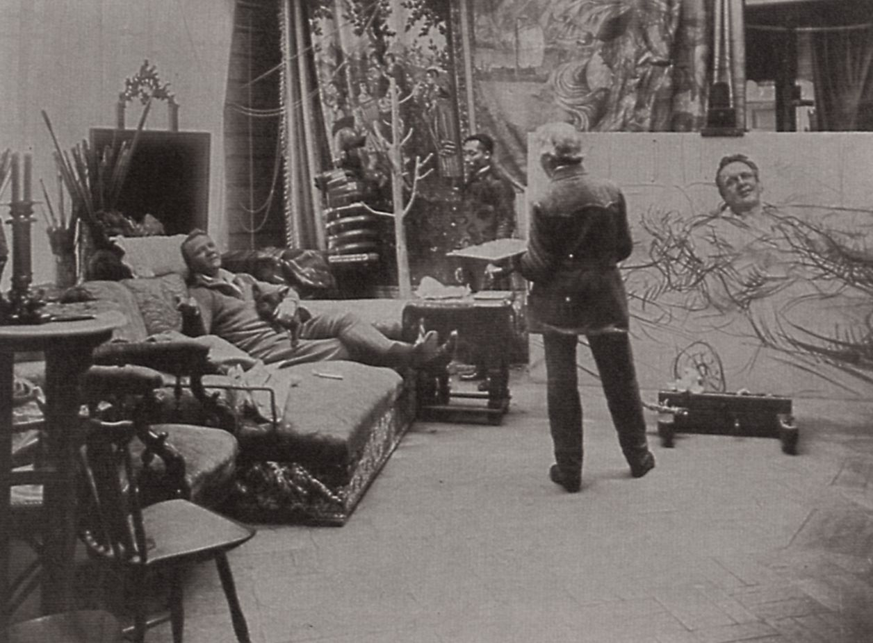 I. E. Repin painting a portrait of Feodor Chaliapin